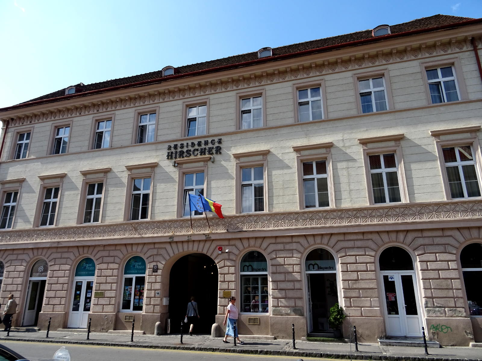 Apollonia Hirscher street, Brasov; house number 14